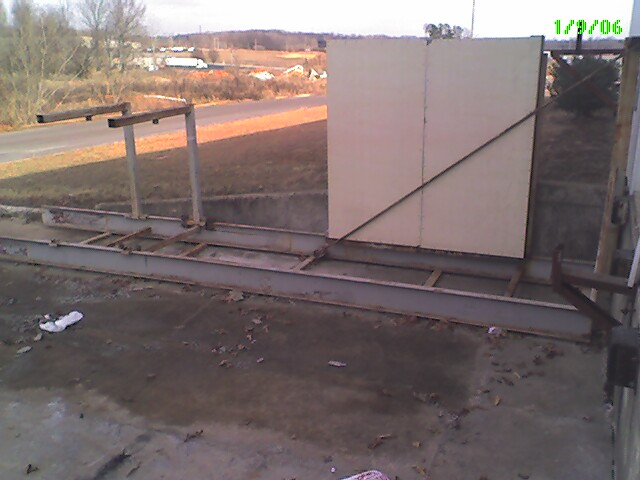 A completed ThermaSAVE building panel awaits destructive testing at the Florence, AL factory to determine compliance & integrity.